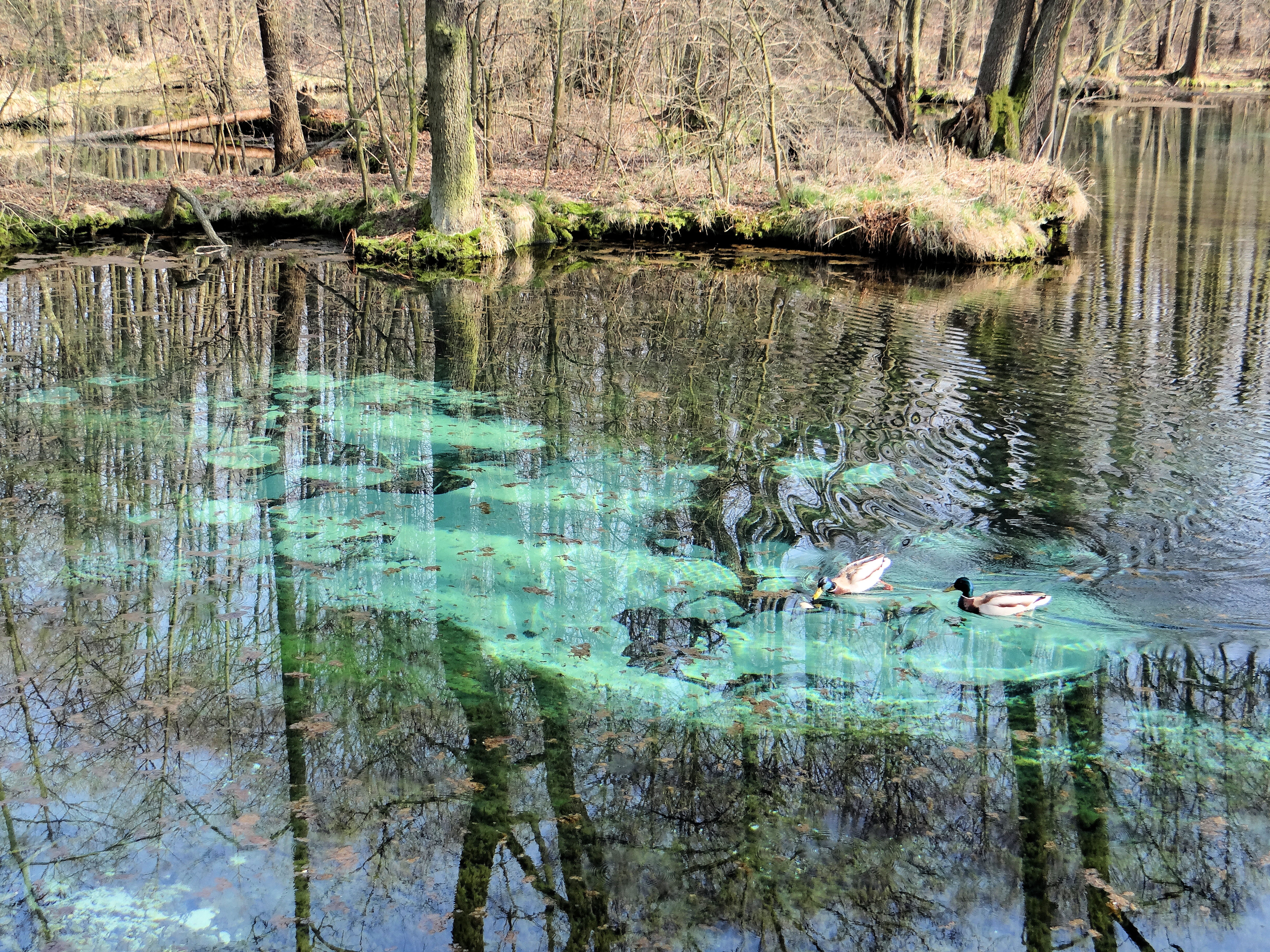 Blue Sources Nature Reserve in Tomaszow Mazowiecki